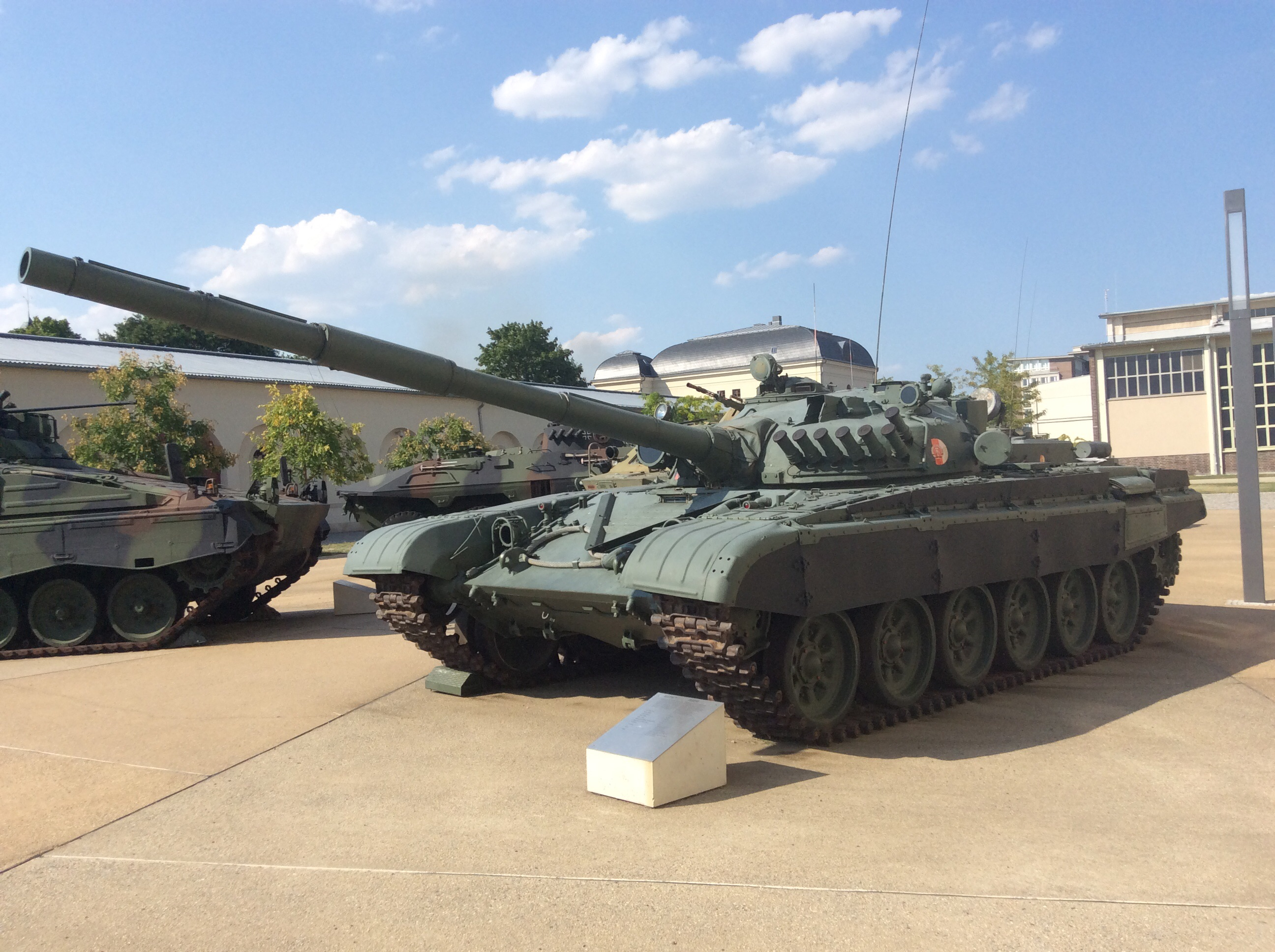 Former East German T-72 main battle tank at the Bundeswehr Military History Museum, Dresden. Photo taken August 2015.